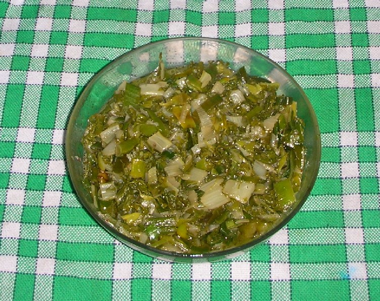 chard (Beta vulgaris var. cicla) sauteed with garlic and leeks